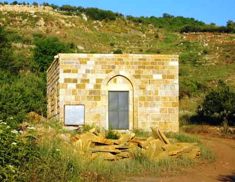 Mar Ghostine Church, Kfarsghab